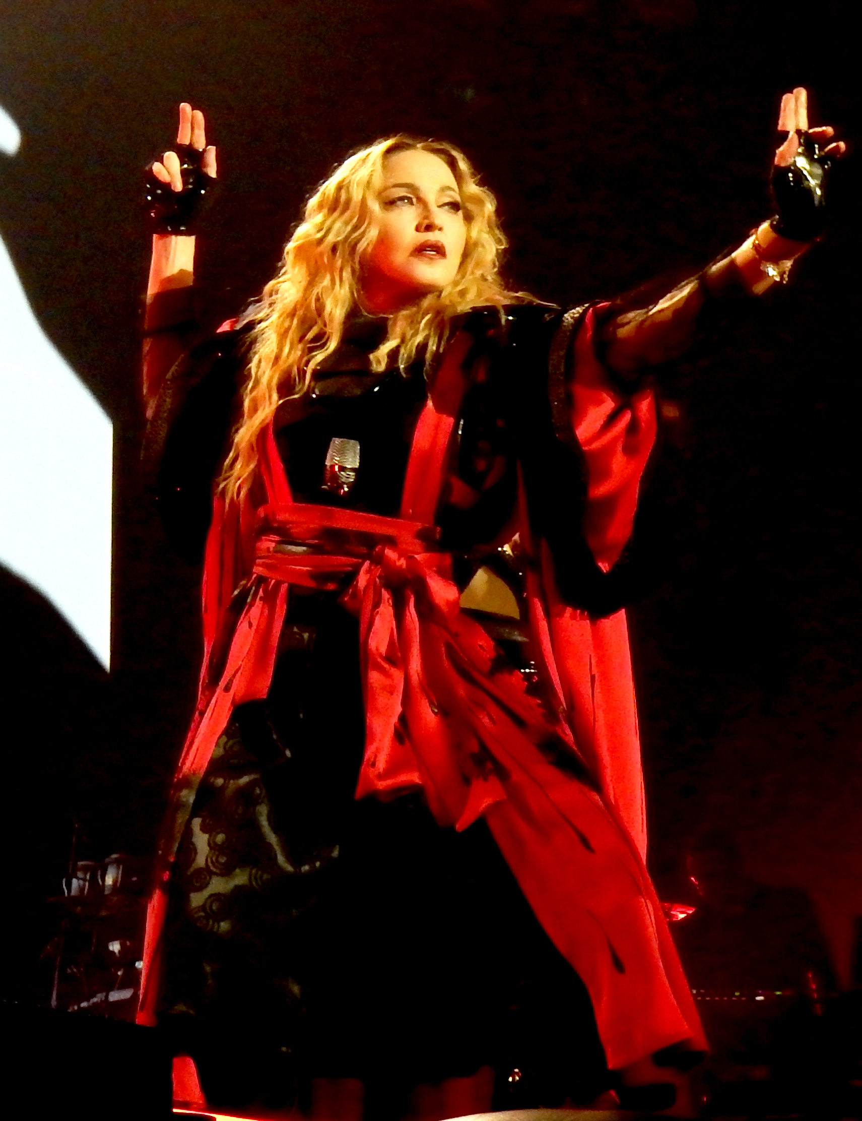 Madonna on Rebel Heart Tour